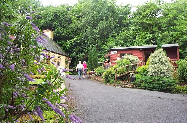 Stepaside Craft Village A collection of chalets on the wooded hillside where local craftsmen exhibit their skills and display their wares for sale.